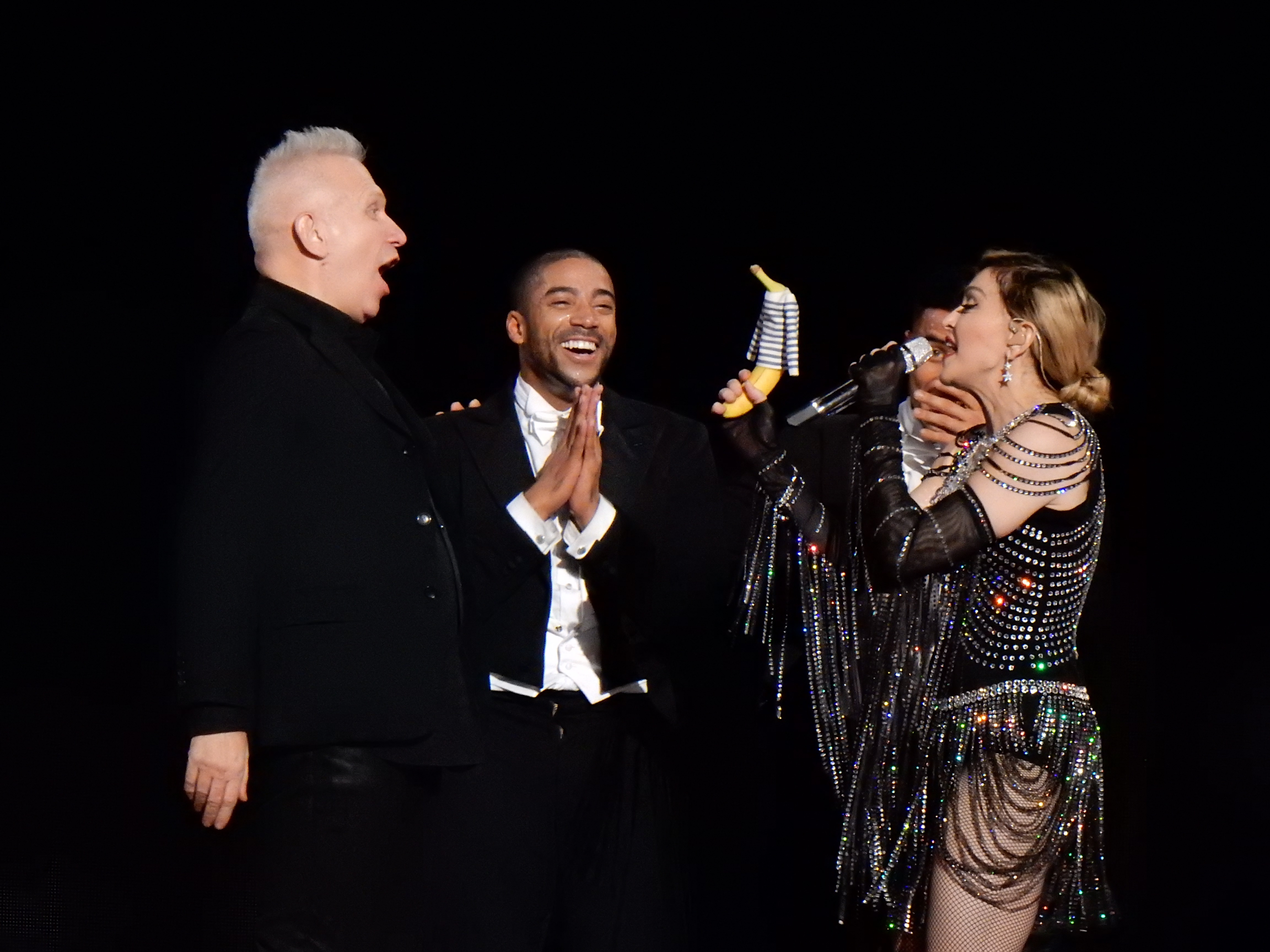 Madonna - Rebel Heart Tour 2015 - Paris 1